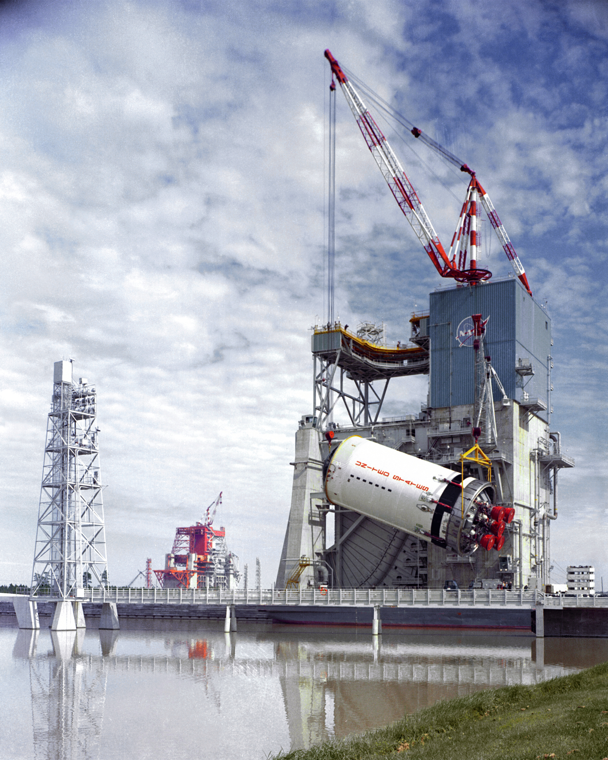 The S-II stage of the Saturn V rocket is hoisted onto the A-2 test stand in 1967 at the Mississippi Test Facility, now the Stennis Space Center. This was the second stage of the 364-foot tall Moon rocket. The second stage was powered by five J-2 engines.